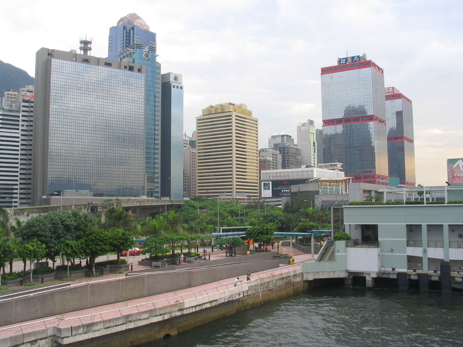 從3號碼頭望向上環一帶 Sheung Wan viewed from Pier 3